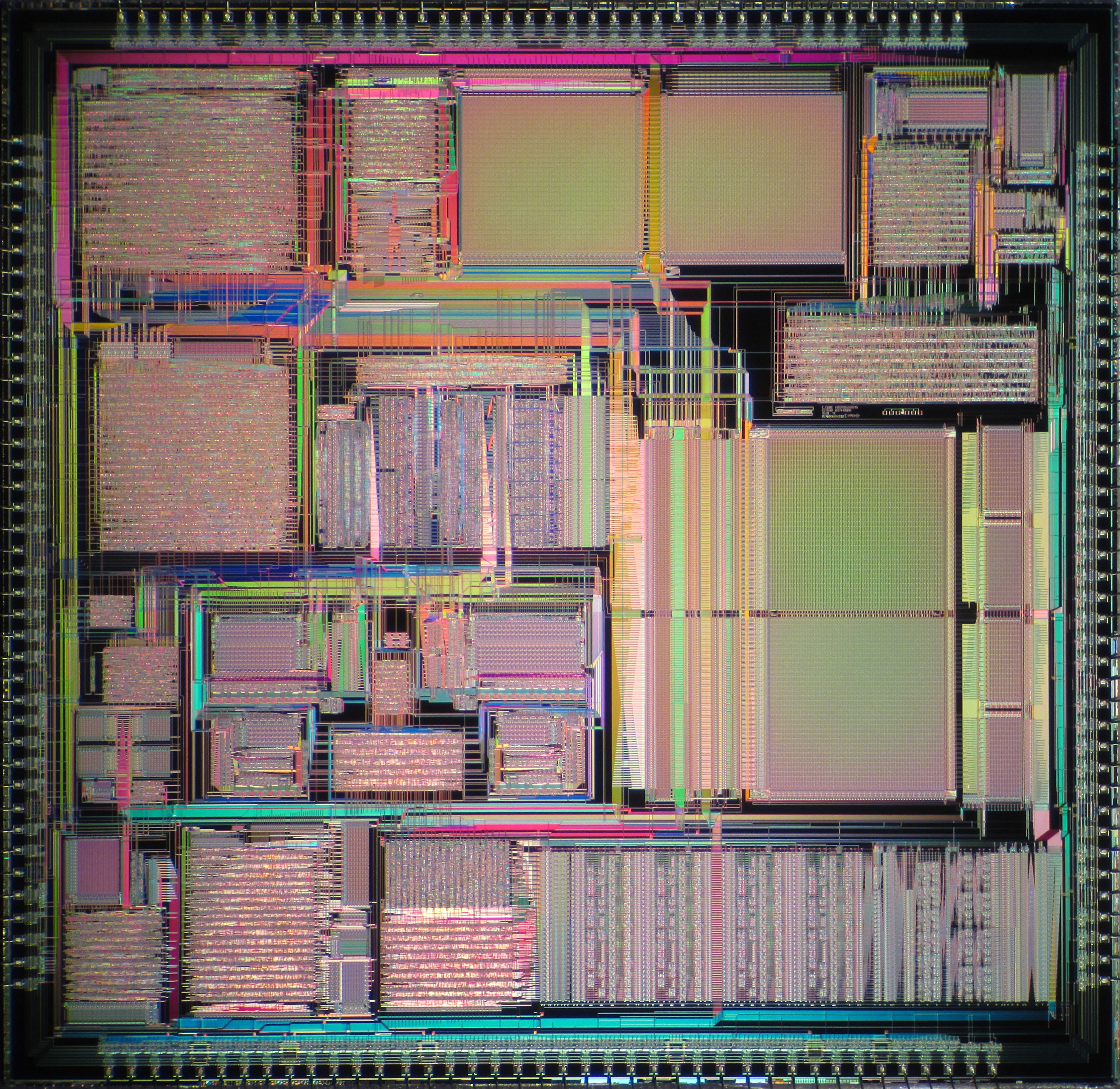 Die shot of C-Cube CL4000 MPEG-1 encoder.